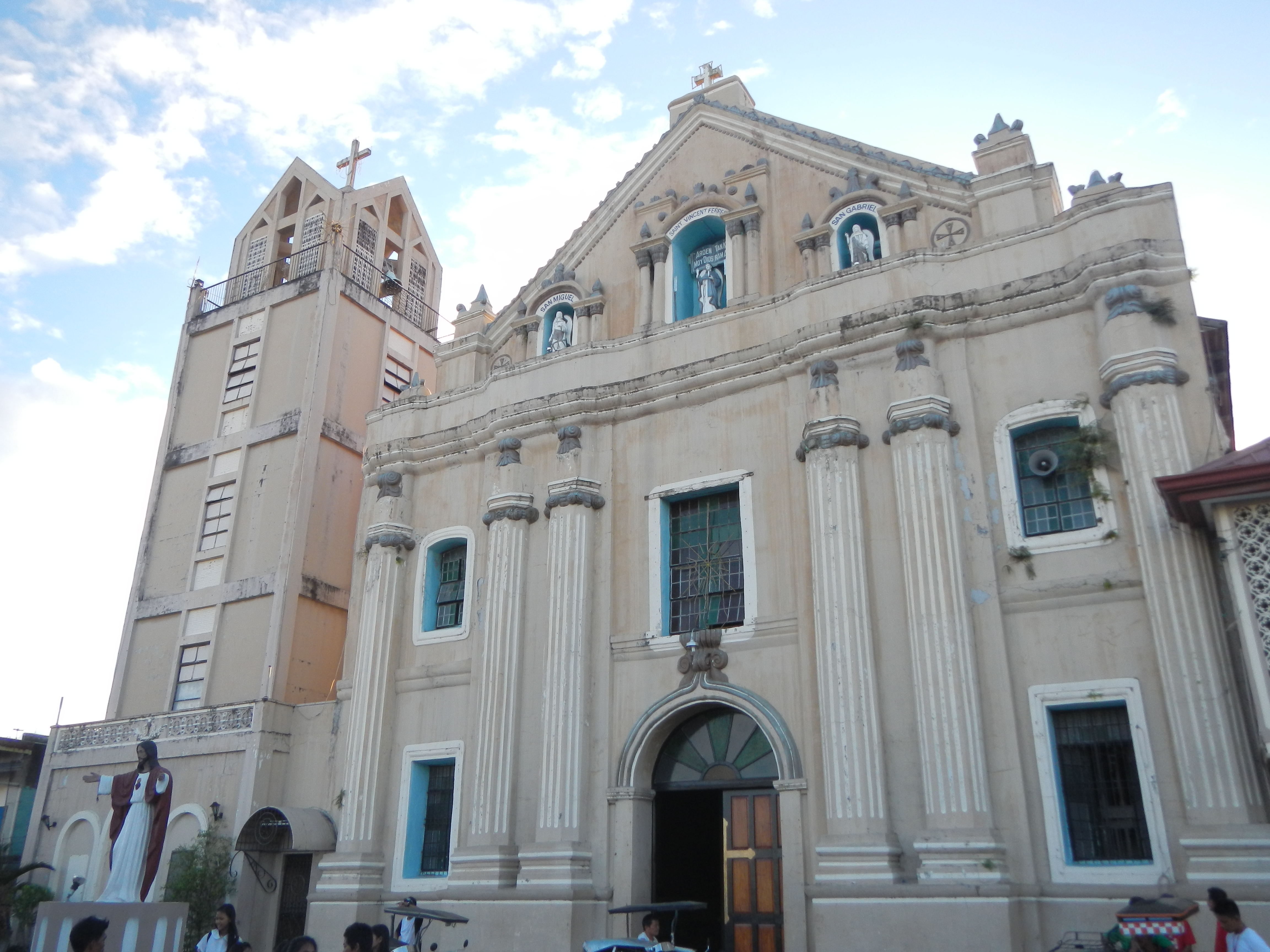 Facade of the St. Vincent Ferrer Church in Bayambang, Pangasinan.